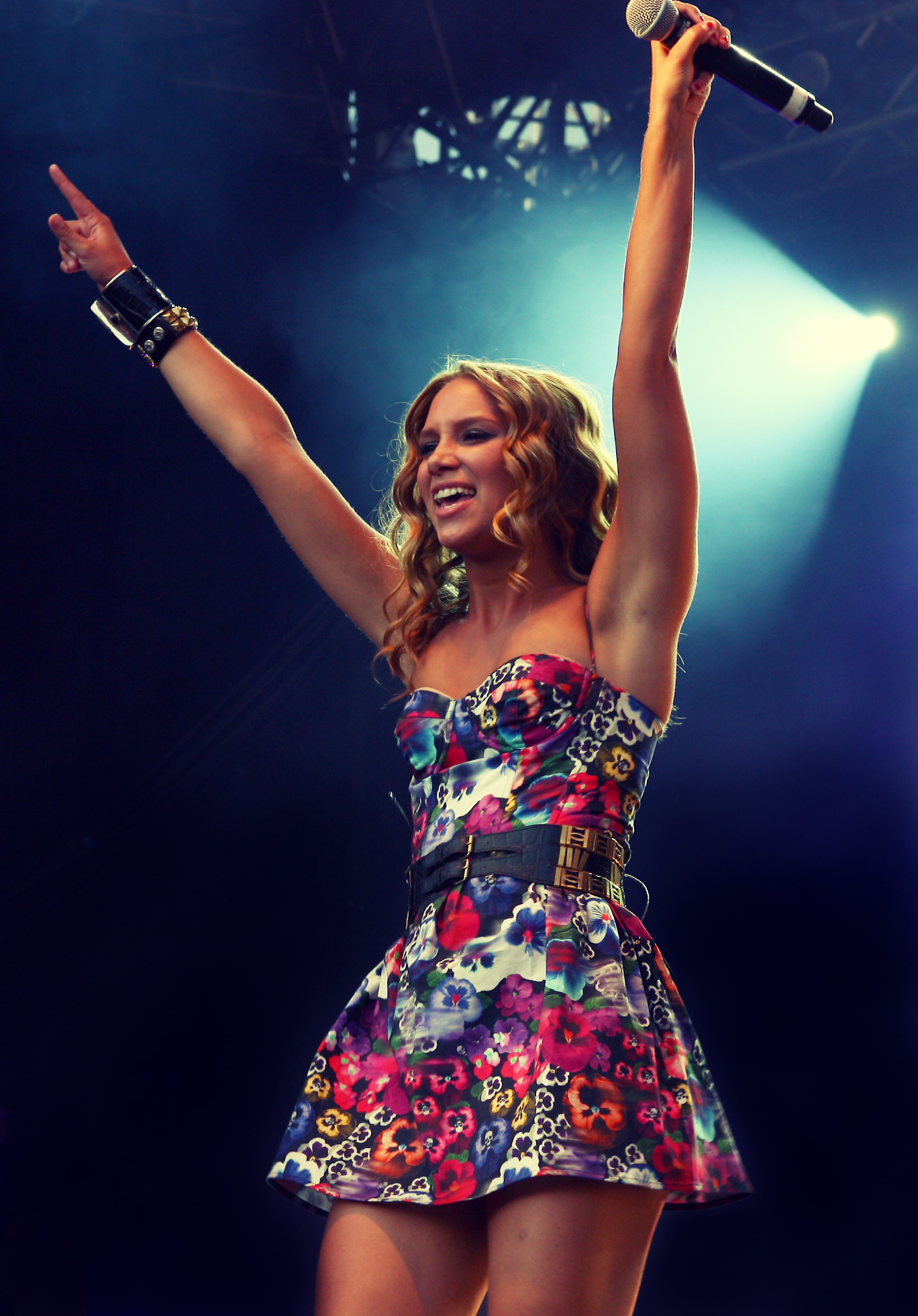 Agnes Carlsson at Rix FM Festival, Kalmar, Sweden.